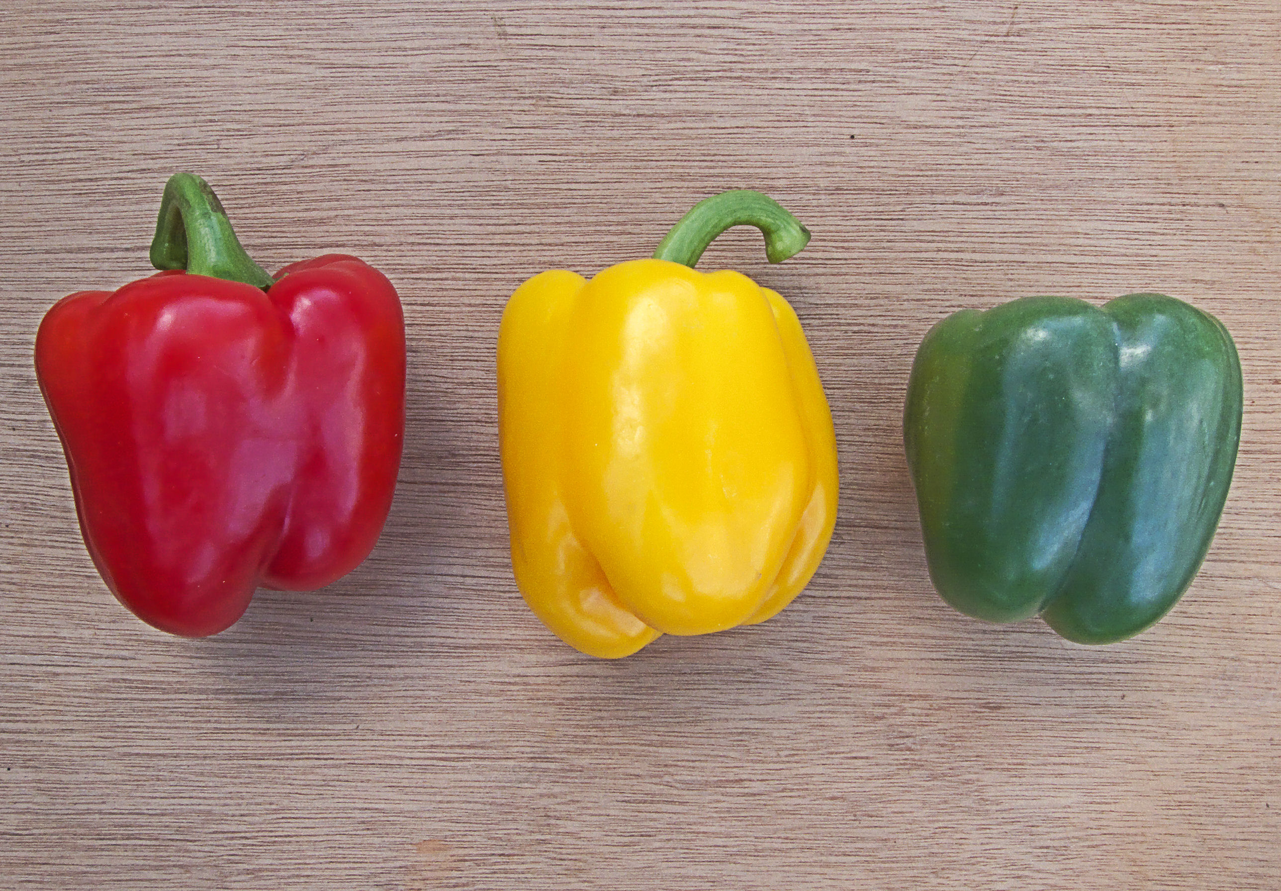 Capsicum annuum, Sweet pepper